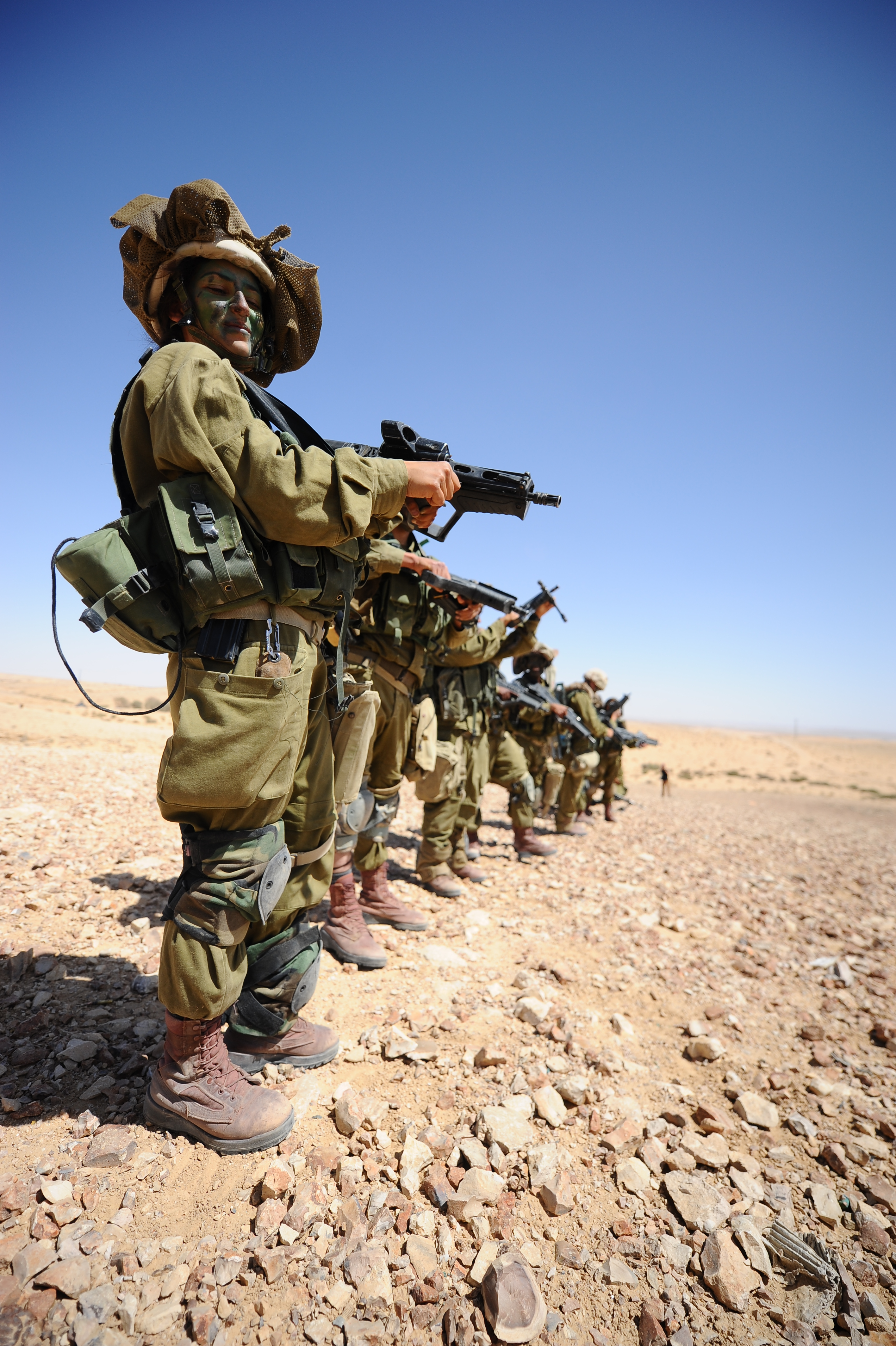 April 10, 2012 Last week, the Caracal Battalion conducted a concluding exercise in Southern Israel, testing the cadets' abilities and knowledge in the field. The Caracal Battalion was created to accommodate women seeking to join a combat unit and fight alongside men. In 2004, the unit was recognized as an official battalion. The Israel Defense Forces Facebook The Israel Defense Forces blog Follow us on Twitter